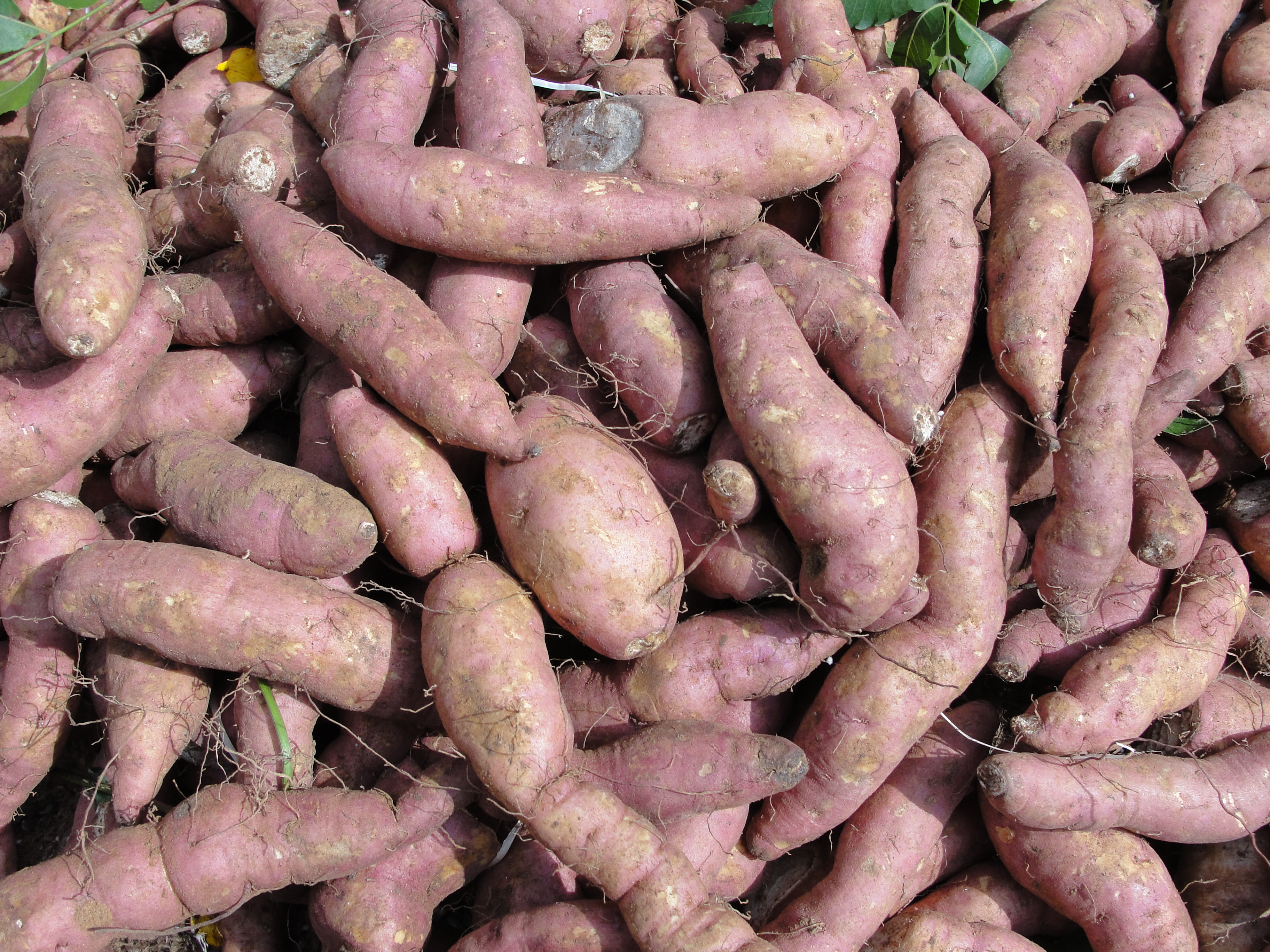 sweet potato